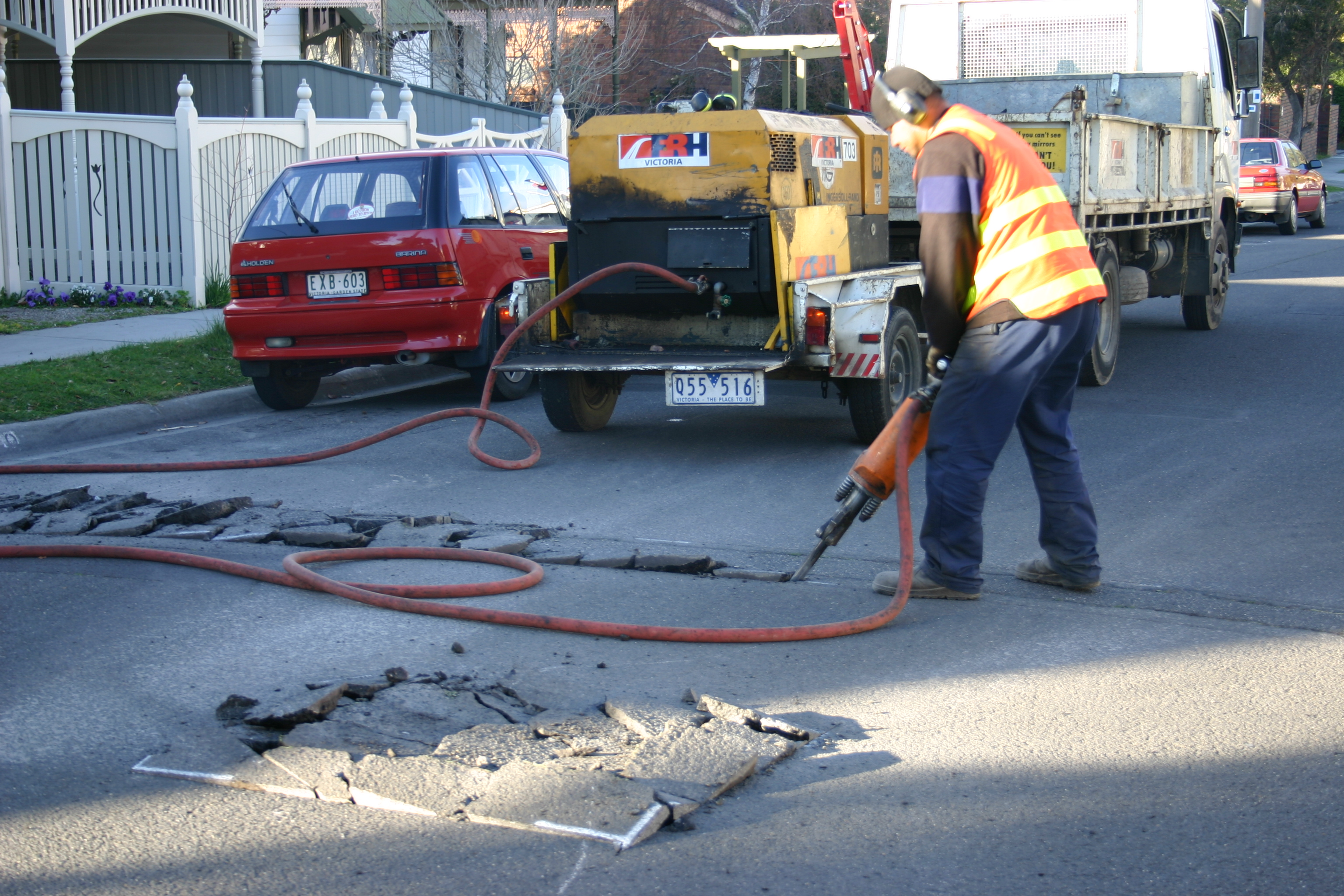 A jackhammer being used to remove a roadsurface in roadworks. The pneumatic hose can be seen leading to the compressor on the back of the truck. The operator is using his body weight to increase the effectiveness of the device.